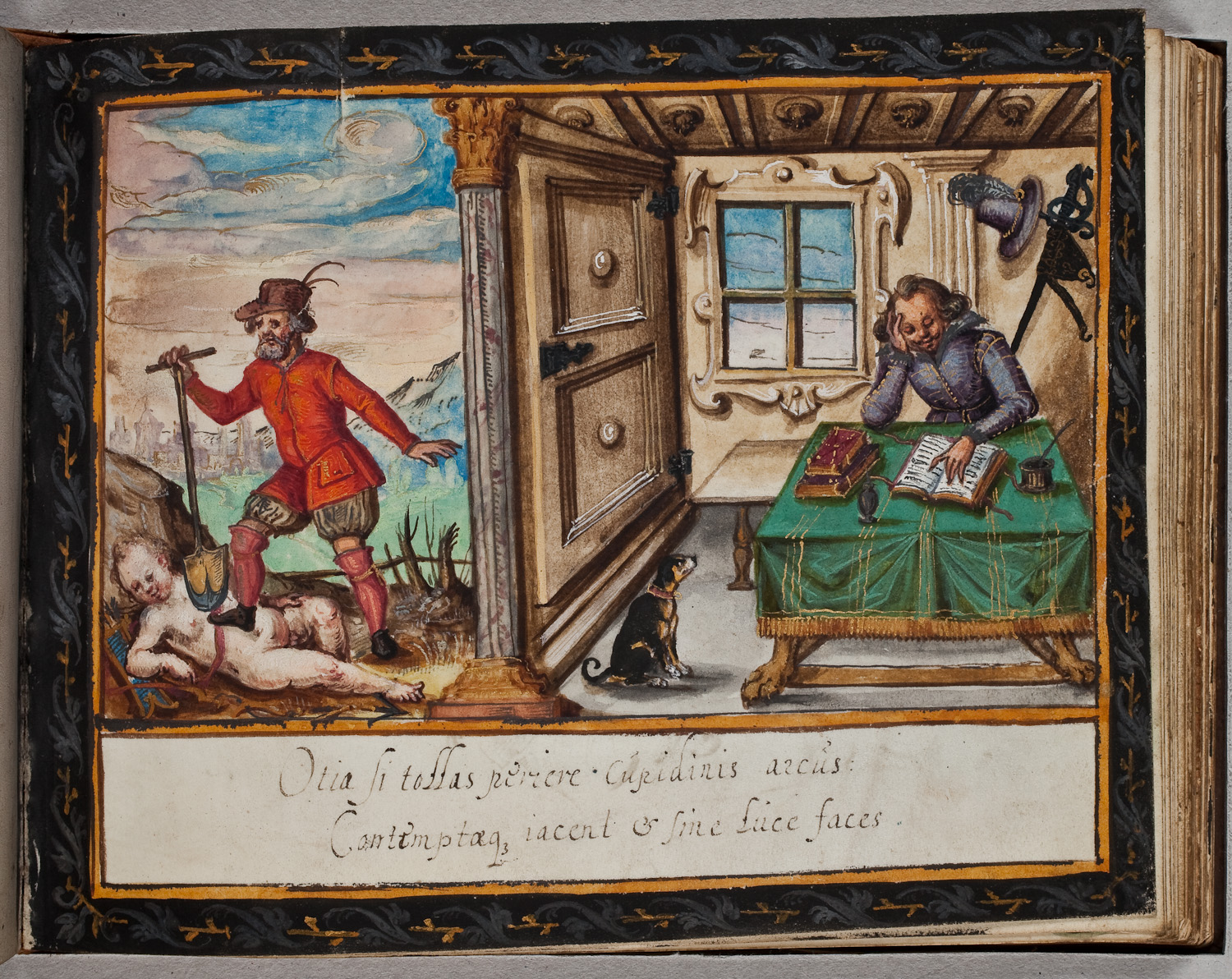 Album amicorum van Lambert van Twenhuysen, p. 121: N.N., [Duitsland, ca. 1612] Zie ook: Image uploaded on 02-10-2013 from the Flickr stream of the Royal Library, The Hague (Koninklijke Bibliotheek, KB, national library of the Netherlands)